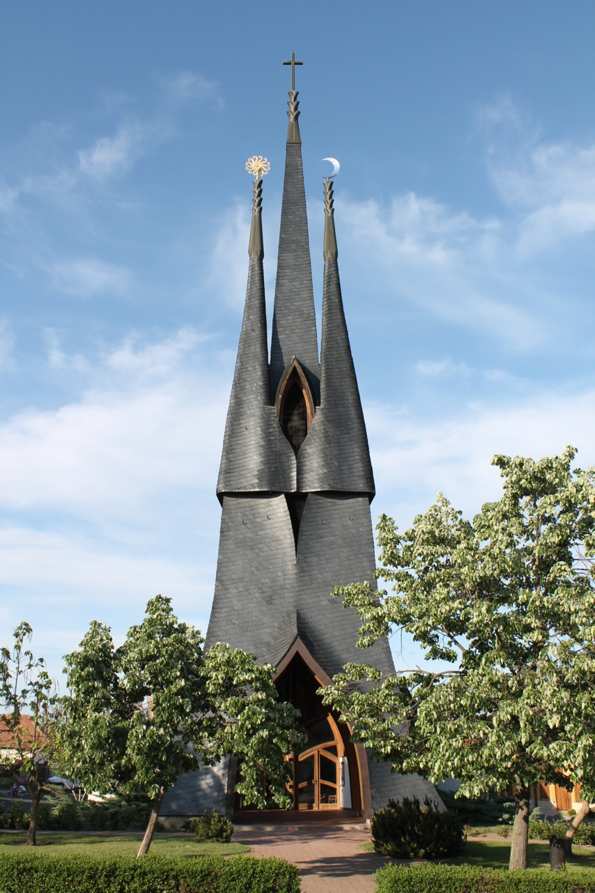 Catholic church, Paks, Hungary